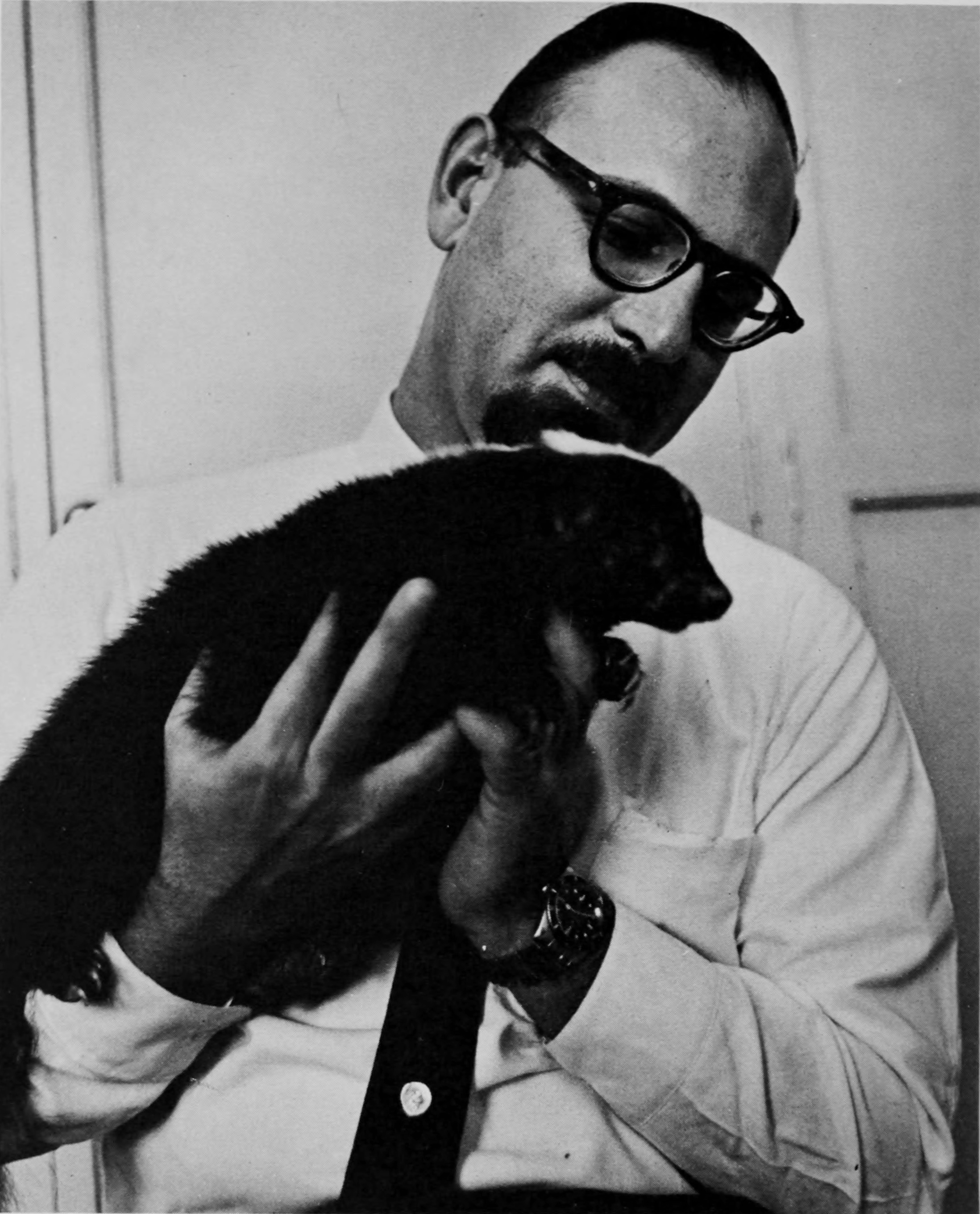 Title: A brief expedition into science at the American Museum of Natural History Identifier: briefexpeditioni00amer Year: 1969 (1960s) Authors: American Museum of Natural History Subjects: American Museum of Natural History; Naturalists; Natural history; Anthropology; Natural history museum curators Publisher: [New York? : The Museum?] Text Appearing Before Image: ' Text Appearing After Image: Richard G. Van Gelder Chairman and Associate Curator, Department of Mammalogy Joined the Museum Staff in 1956 B.S., 1950, Colorado Agricultural and Mechanical College Ph.D., 1958, University of Illinois Residence: Manhattan